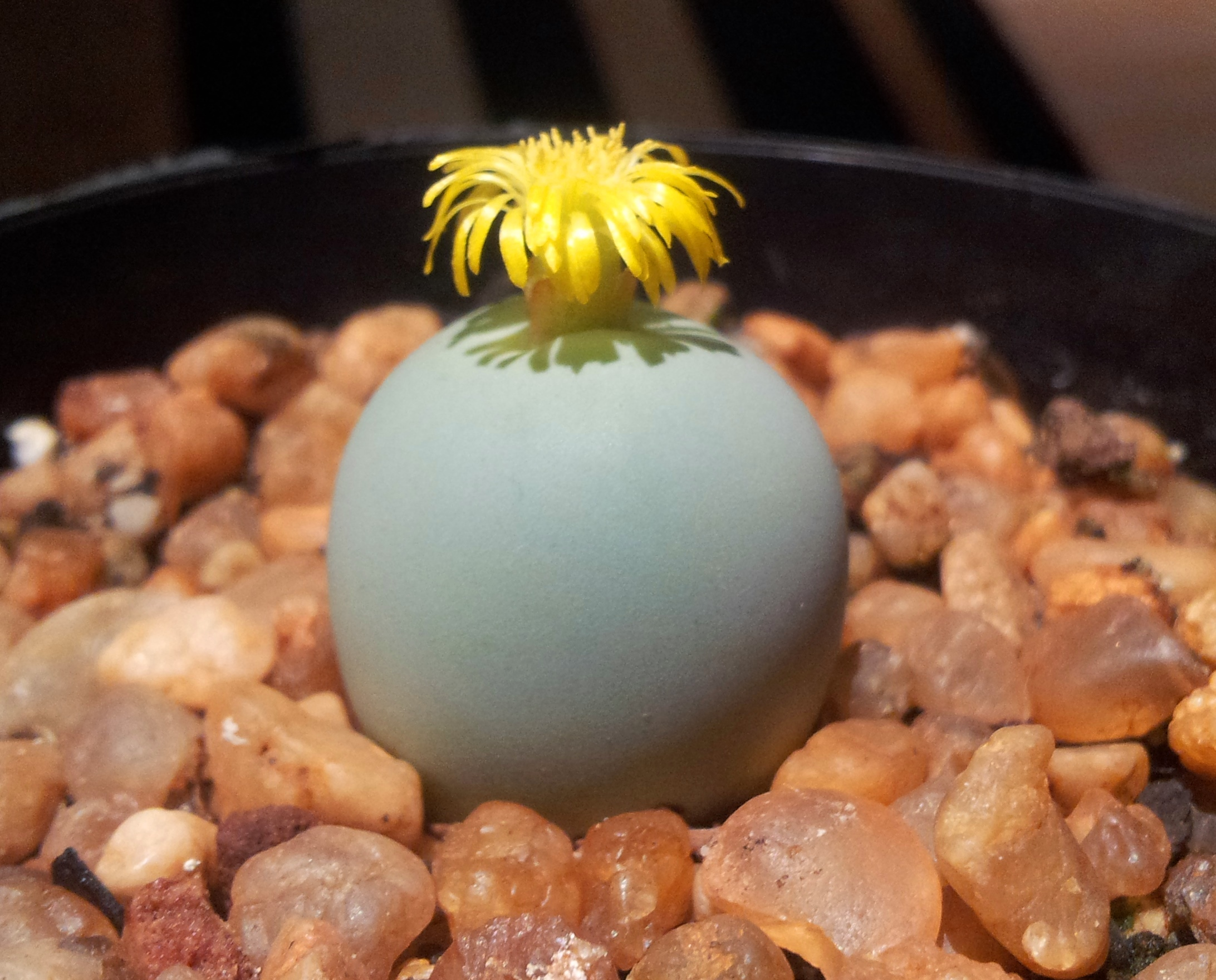 Conophytum calculus. Night-flowering moth-pollinated succulent from the Namaqualand South Africa.